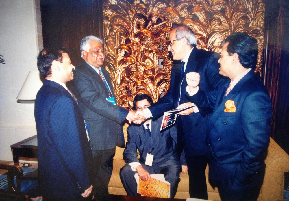 firoze noon and president of pakistan